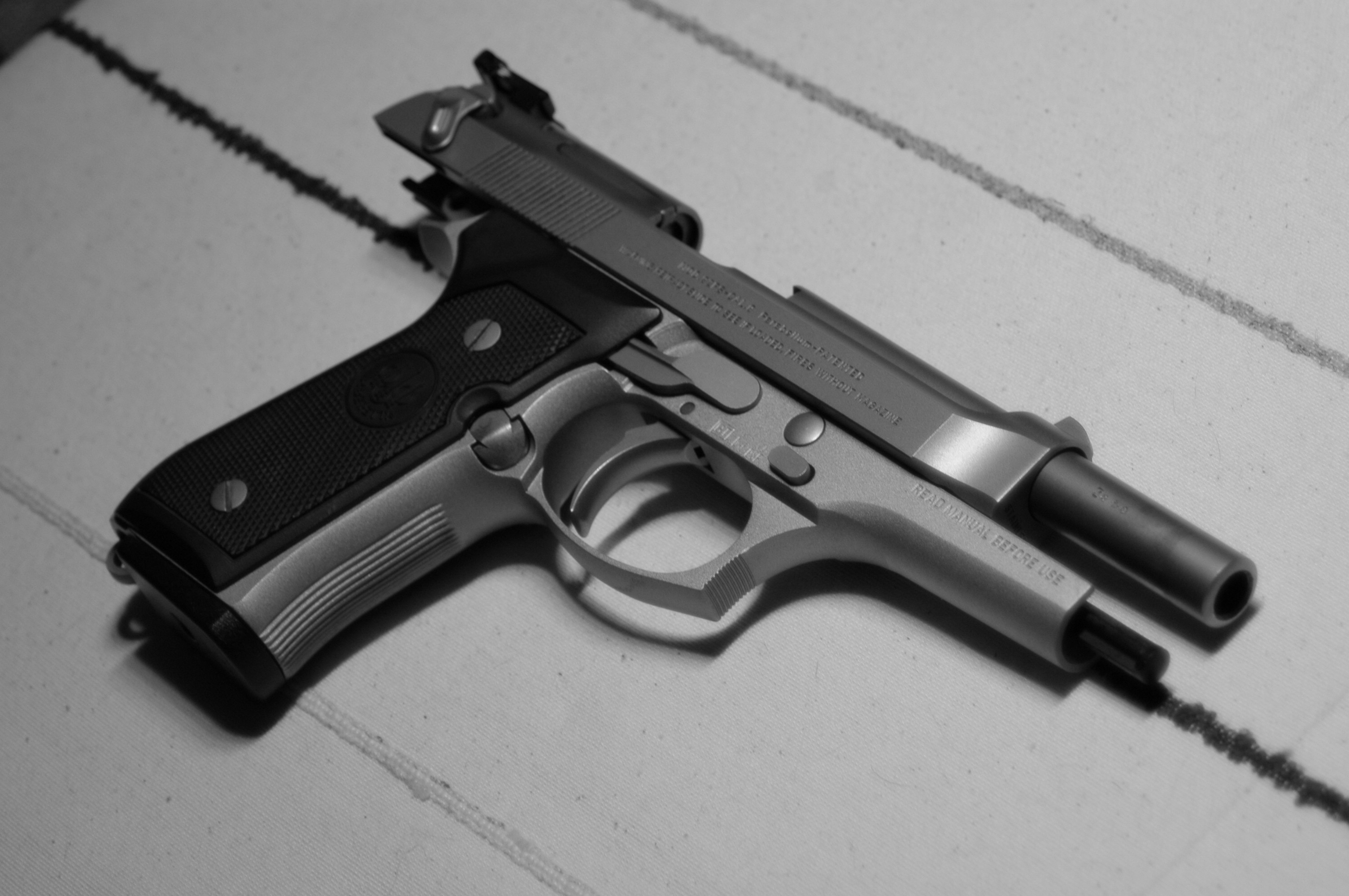 Beretta 92FS (right)